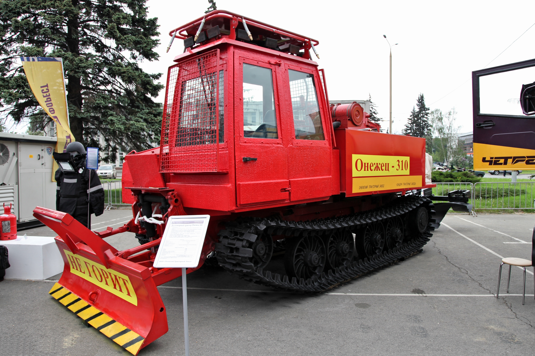 The tracked fire fighting apparatus Onezhets 310 at ISSE-2012.